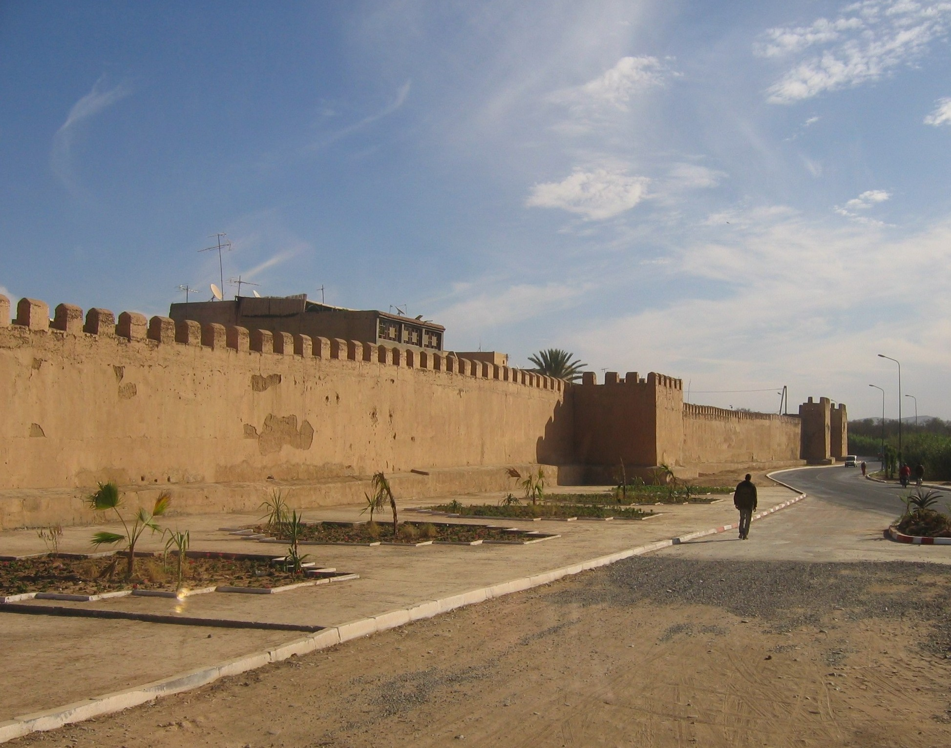 Defensive wall, Taroudant, Morocco